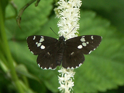 ssp. tethys, on flowers of Lysimachia clethroides.